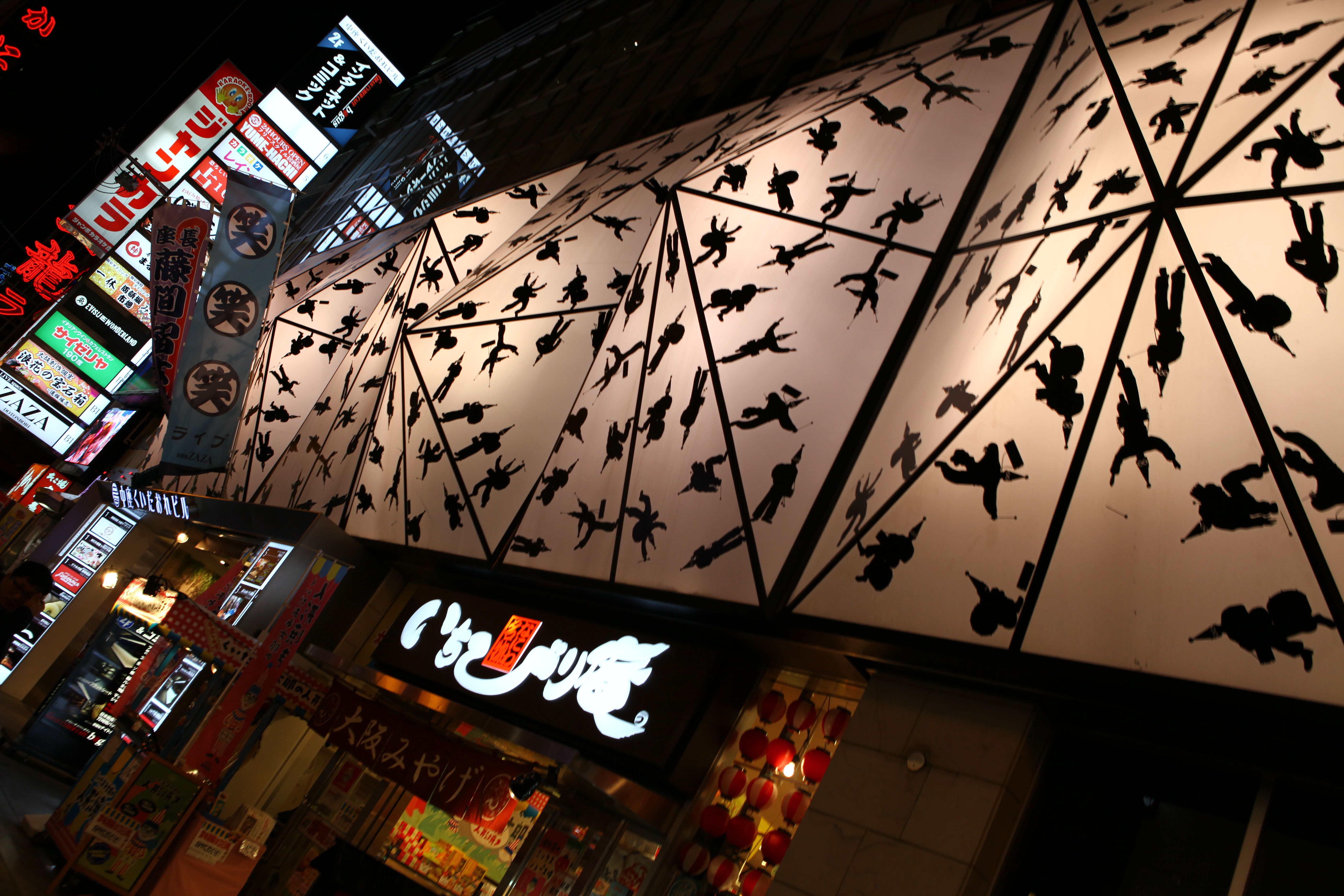 Japan